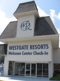 Here is a cropped picture that I took to represent the Mystery Fun House as it stands today. Higher resolution image can be found here